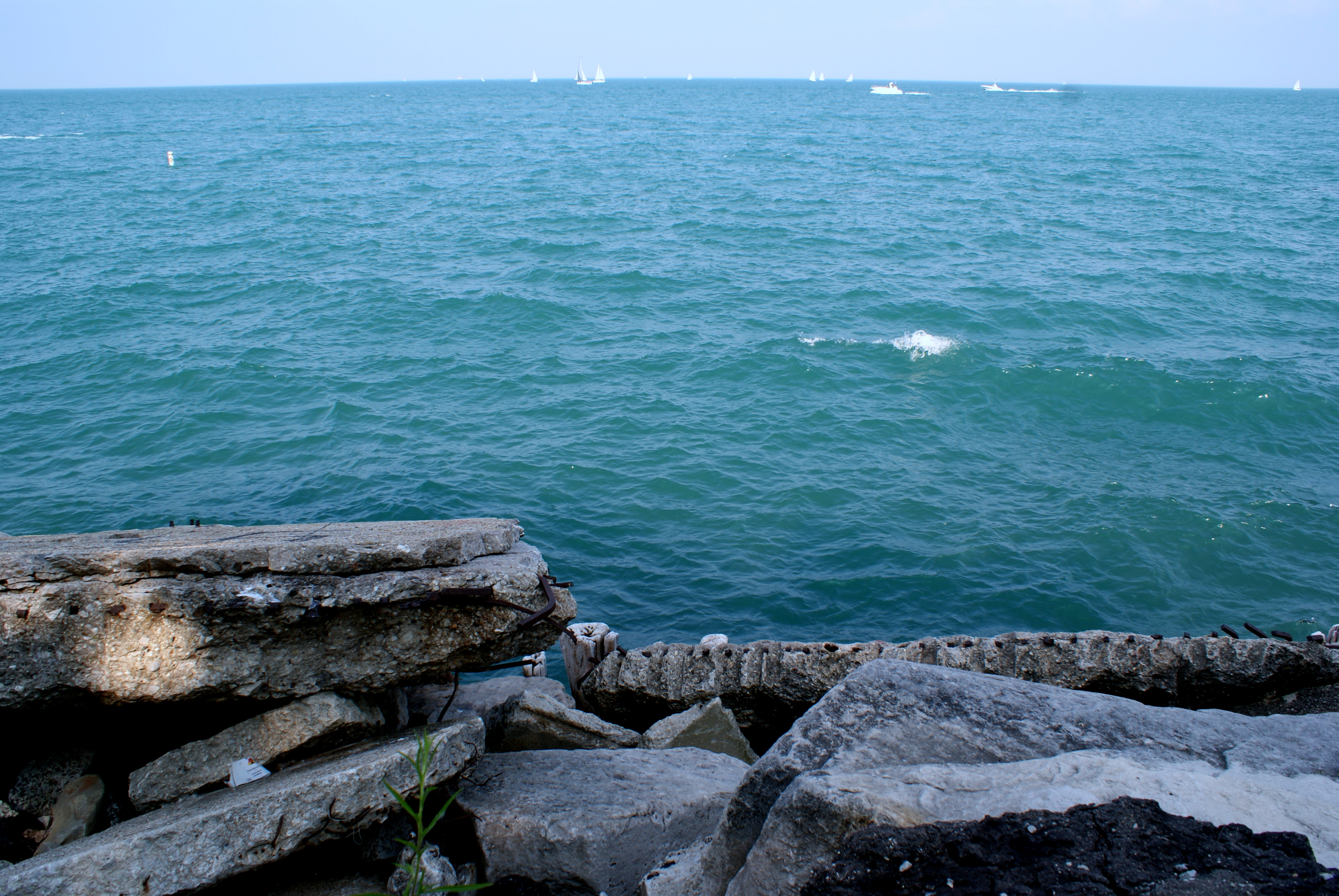 Northerly Island waterfront